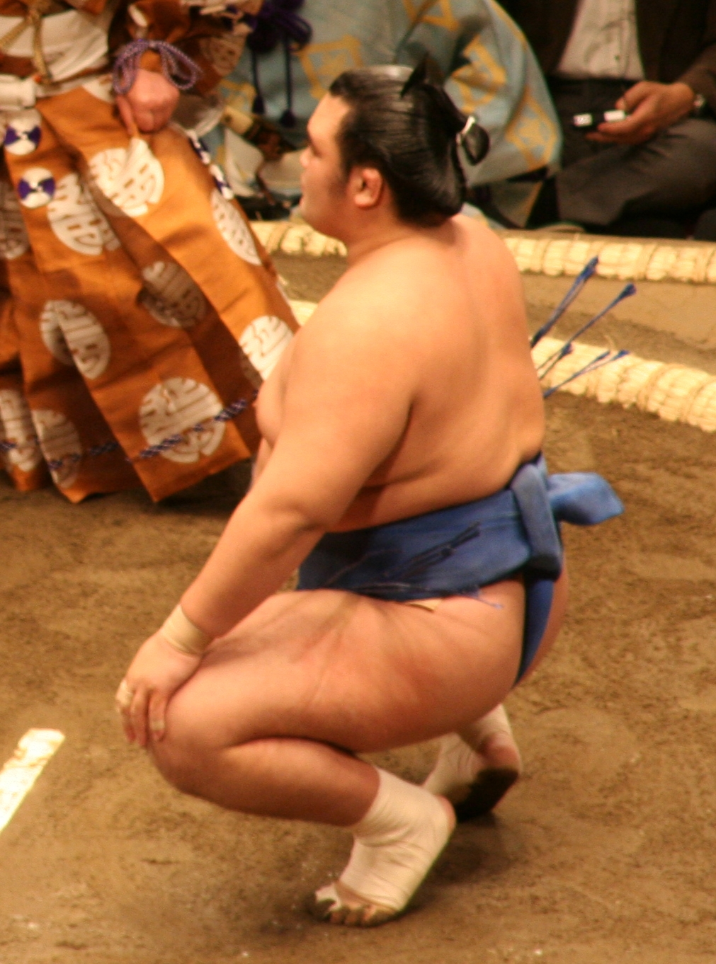 Sumo Wrestler Kotoshōgiku Kazuhiro on the first day the of May Tournament 2007 in Tokyo.